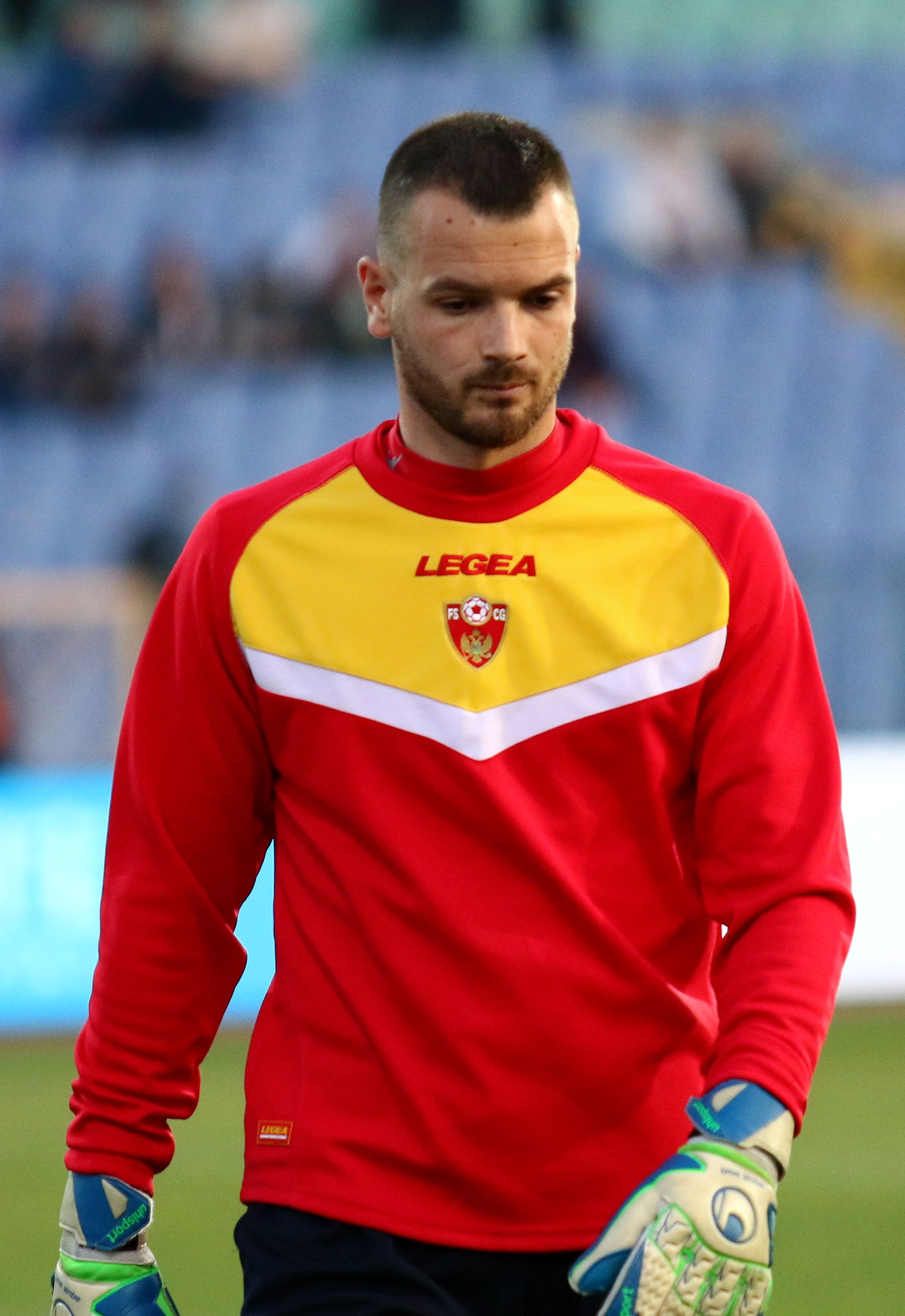 Milan Mijatović (born 26 July 1987), is a Montenegrin footballer who plays as a goalkeeper for FK Budućnost Podgorica.